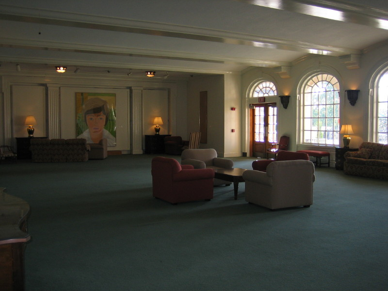 This a picture from the study area in Reynolda Hall looking out over the Magnolia Quad (Manchester Plaza). I took this on May 10, 2005 around graduation time. JHMM13 (T